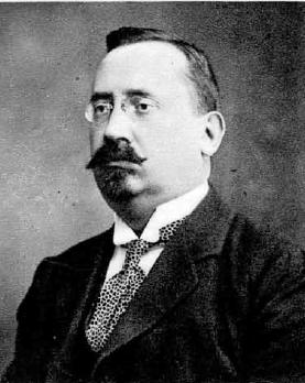 Evgen Jarc (1878-1936), Slovene politician